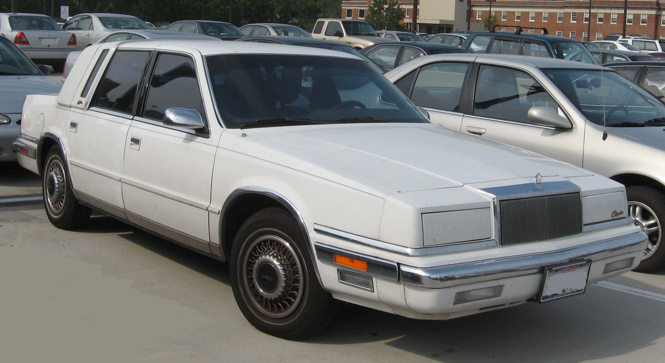 Chrysler New Yorker photographed in College Park, Maryland, USA.